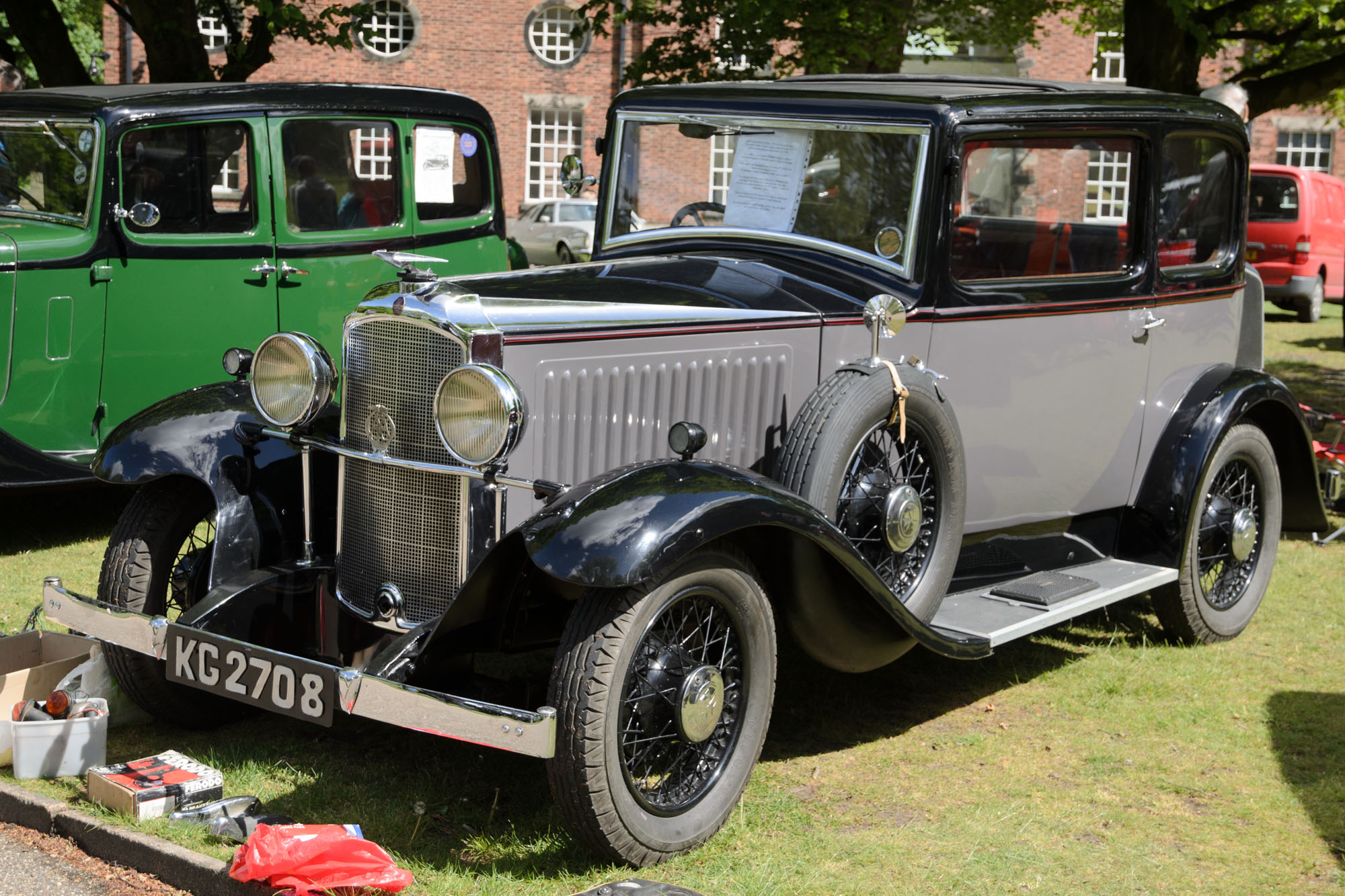 Vauxhall Cadet 2-door Coupe (1933) Astley Park (Chorley) Classic Car Show 14/05/2017